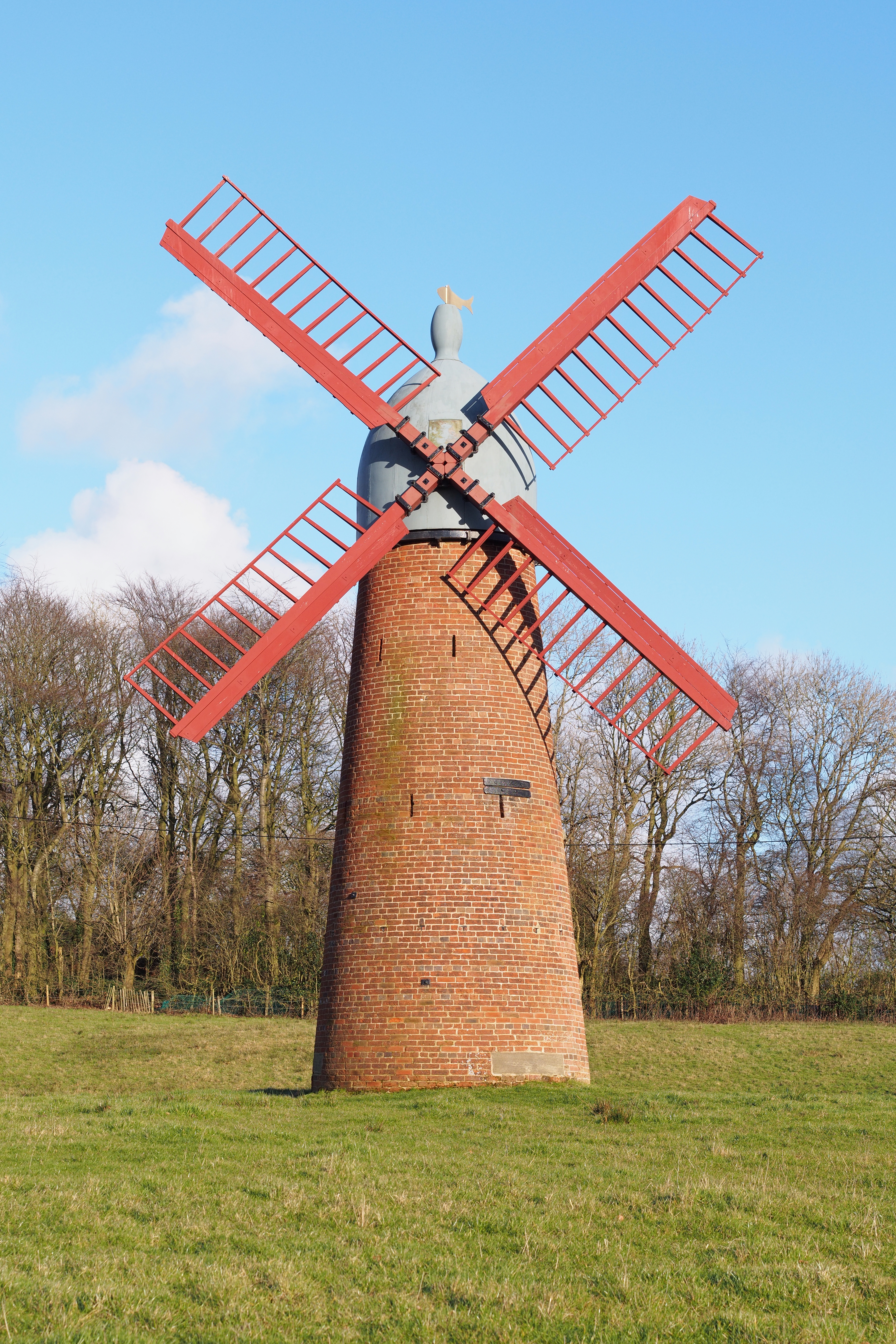 Windpump south of Copperas Lane, Haigh, Greater Manchester